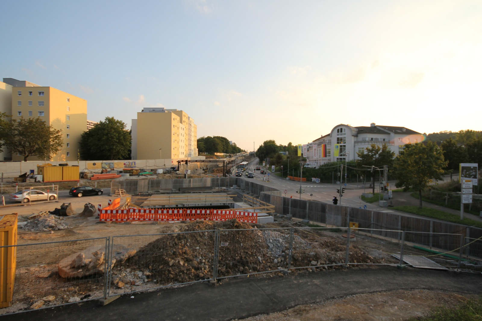 Construction site of new U12 subway line in Stuttgart Münster between Hallschlag and Aubrücke